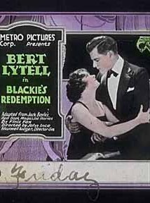 Poster for the American film Blackie's Redemption (1919).